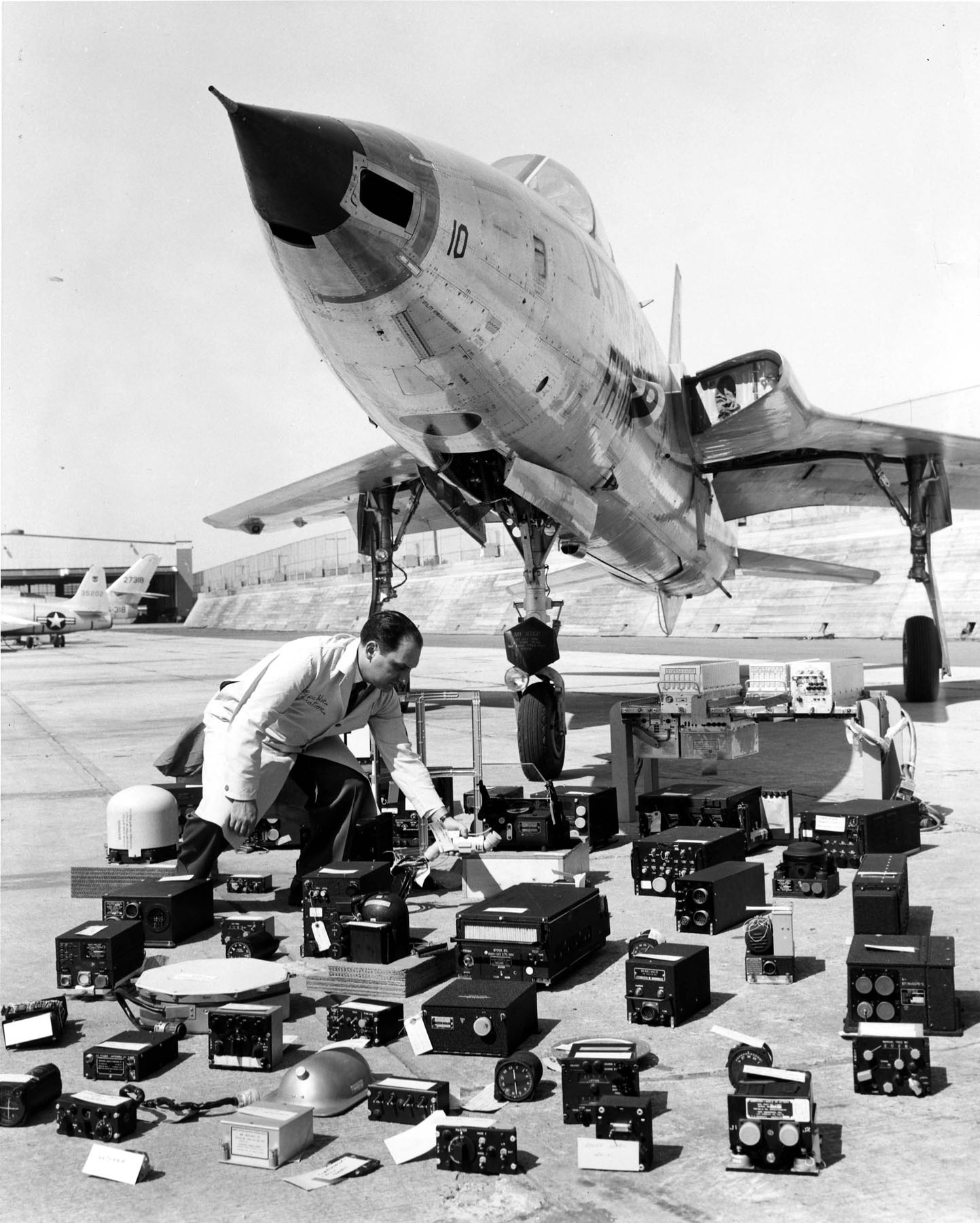 Republic F-105B Thunderchief with avionics layout.